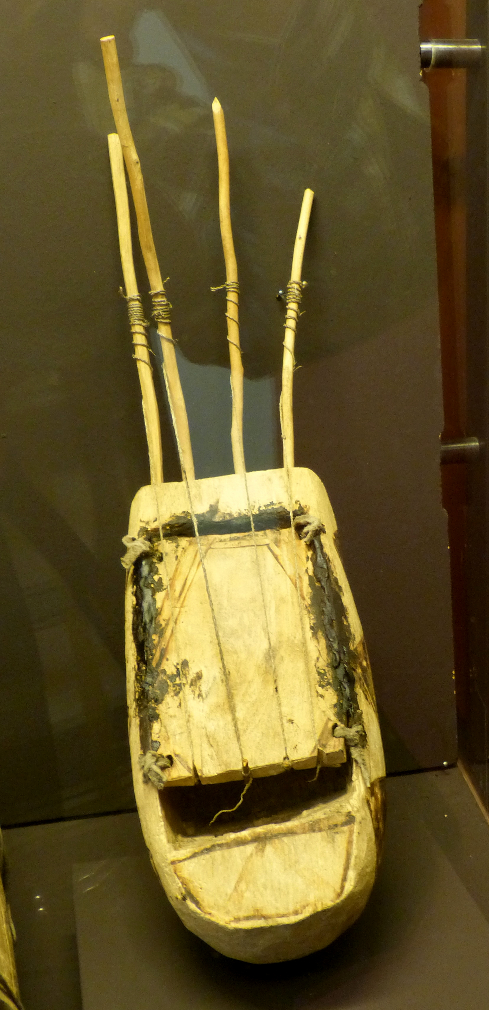 Salzburg city ( Austria ). House of Nature - Ethnology: Guashi ( bush people guitar ) of the !ko and !kung people of the Kalahari.